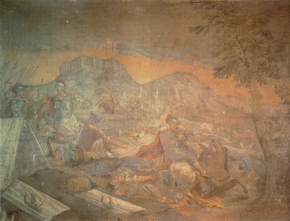 The Guelphs from Montevarchi defeat the troops of the emperor Federik II on 1248